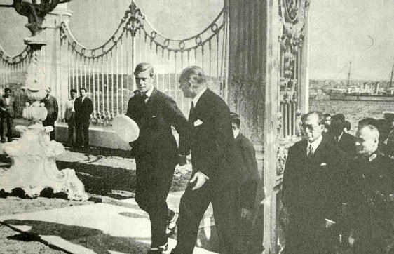 Mustafa Kemal Atatürk and Edward VIII in the wharf of Dolmabahçe Palace, Istanbul, 4 September 1936.